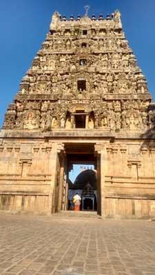 Korukkai Veeratteswarar Temple கொருக்கை வீரட்டேசுவரர் கோயில்